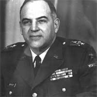 General Berton E. Spivy from [1]. Official U.S. Army command portrait photo, ineligible for copyright